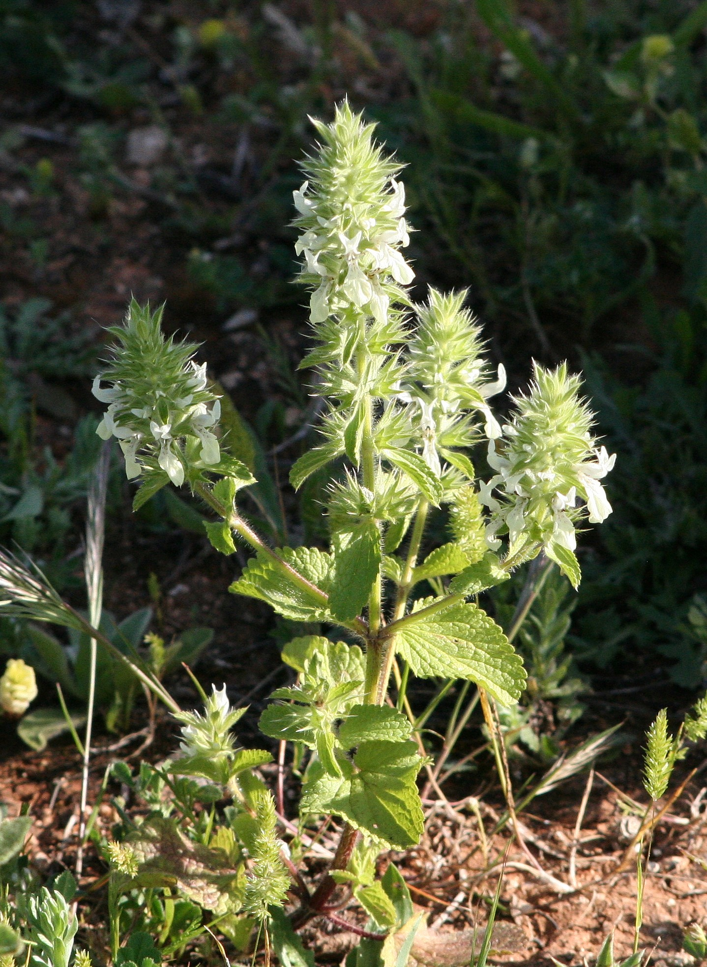 Stachys_ocymastrum